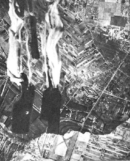 American Planes bring aid to Warsaw Uprising in August 1944. Photo was made soon after throwing out of the containers with aid above Mokotów district, so the parachutes did not have time to open yet. On the bottom one can see horse race track of Służewiec and Puławska street on the right